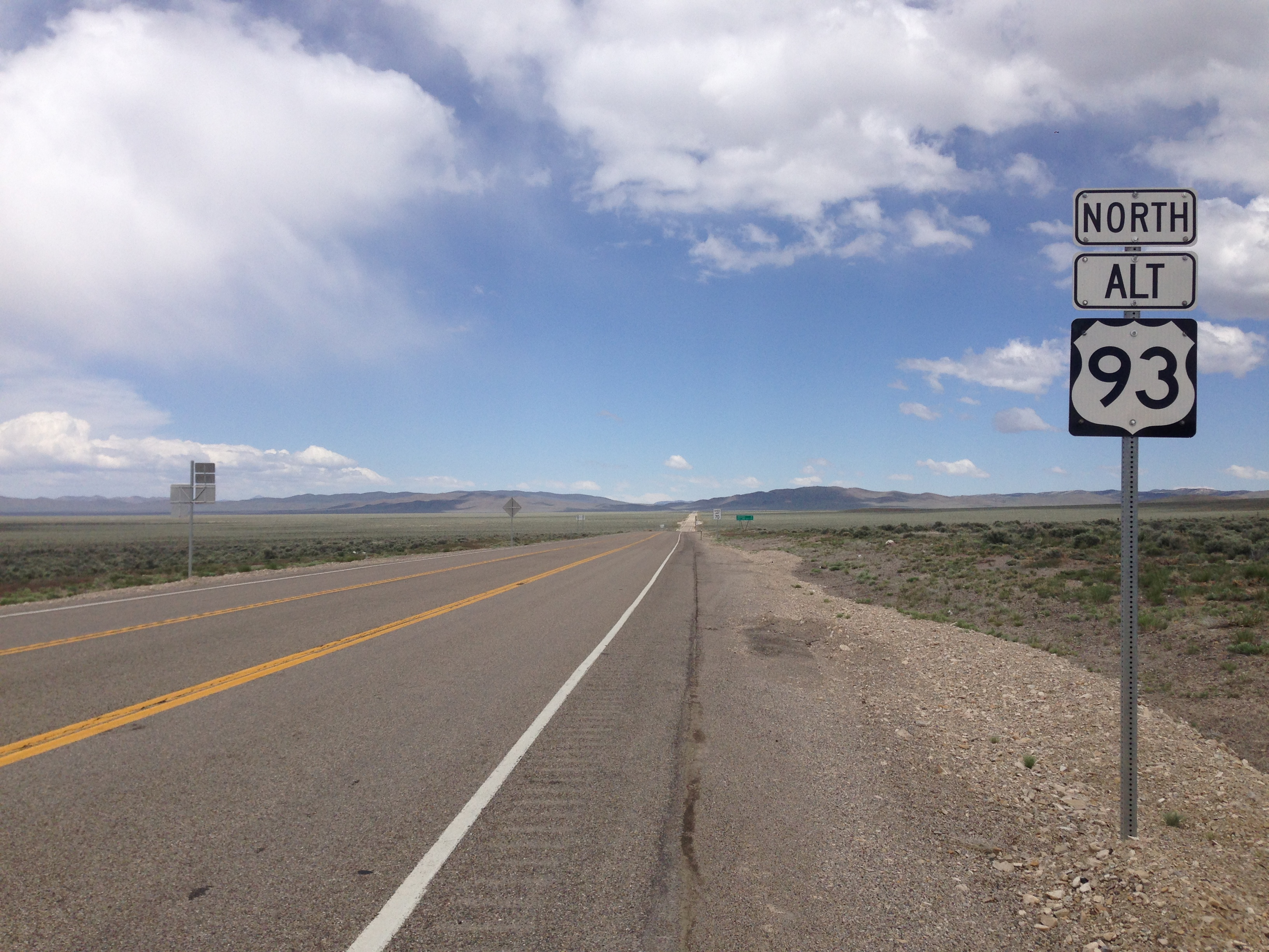 Sign on Alternate U.S. Route 93 northbound just north of U.S. Route 93 in Lages Junction, Nevada